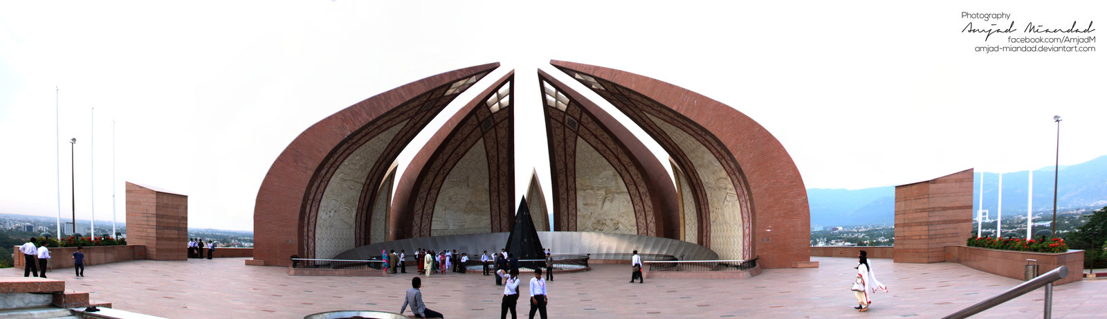 Pakistan+Monument